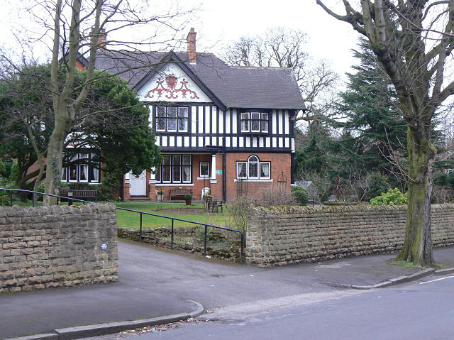 Northfield, 470 Mansfield Road, Nottingham 1906, by William Beedham Starr. Also on Mapperley Hall Drive. Mapperley Park is an area full of large houses from the late Victorian and Edwardian periods.